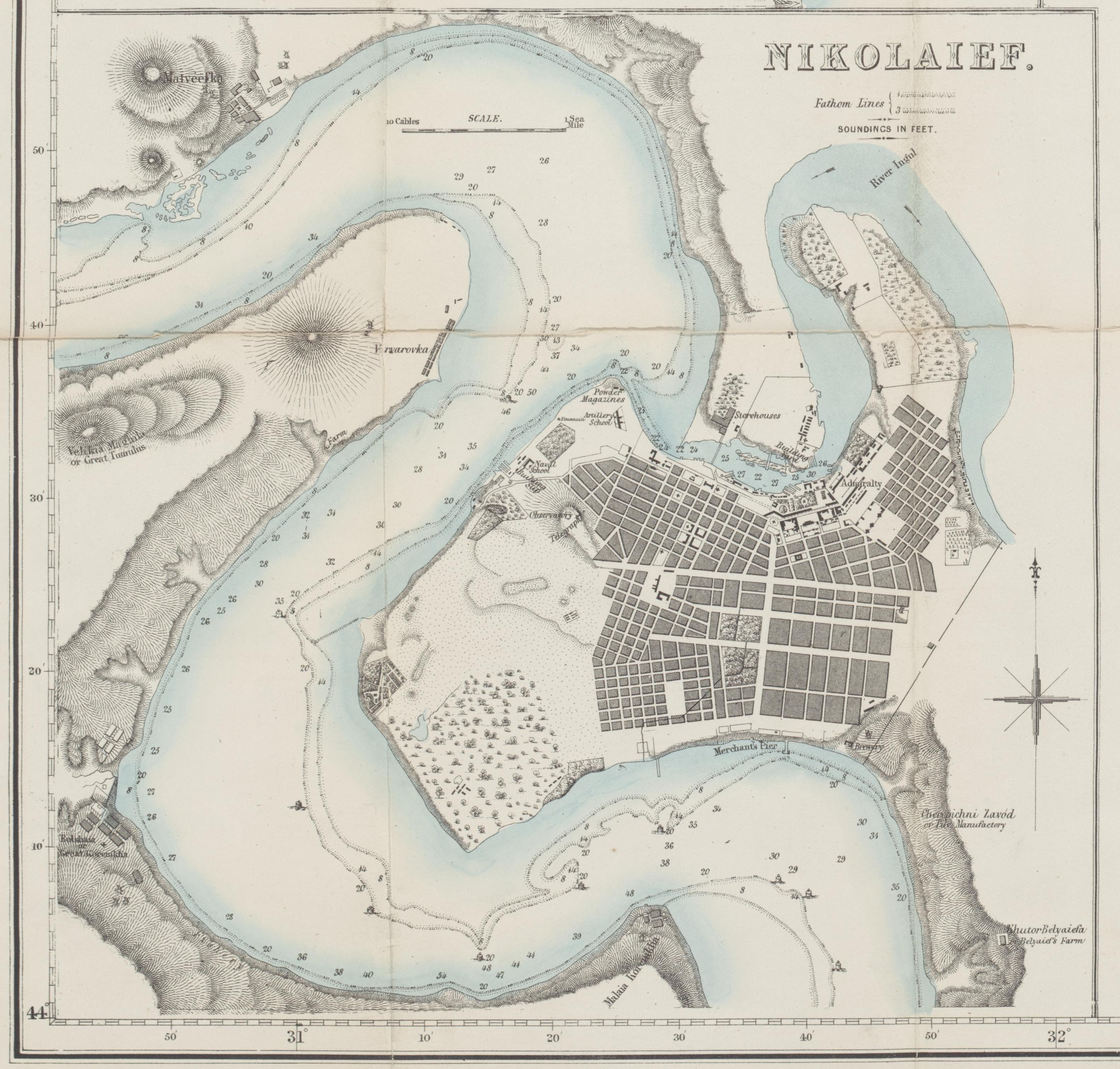 Map of Mykolaiv (Nikolaief) from the “Stanford's map of the roads &c. between Odessa, Nikolaief, Perekop, Simferopol and Sebastopol”